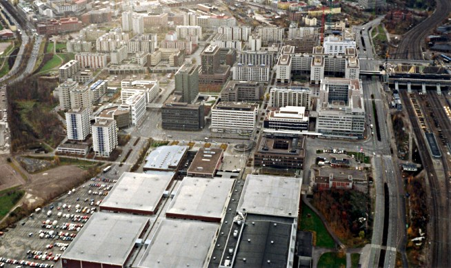 Eastern Pasila, Helsinki photographed from the air. North is about 7 o'clock.